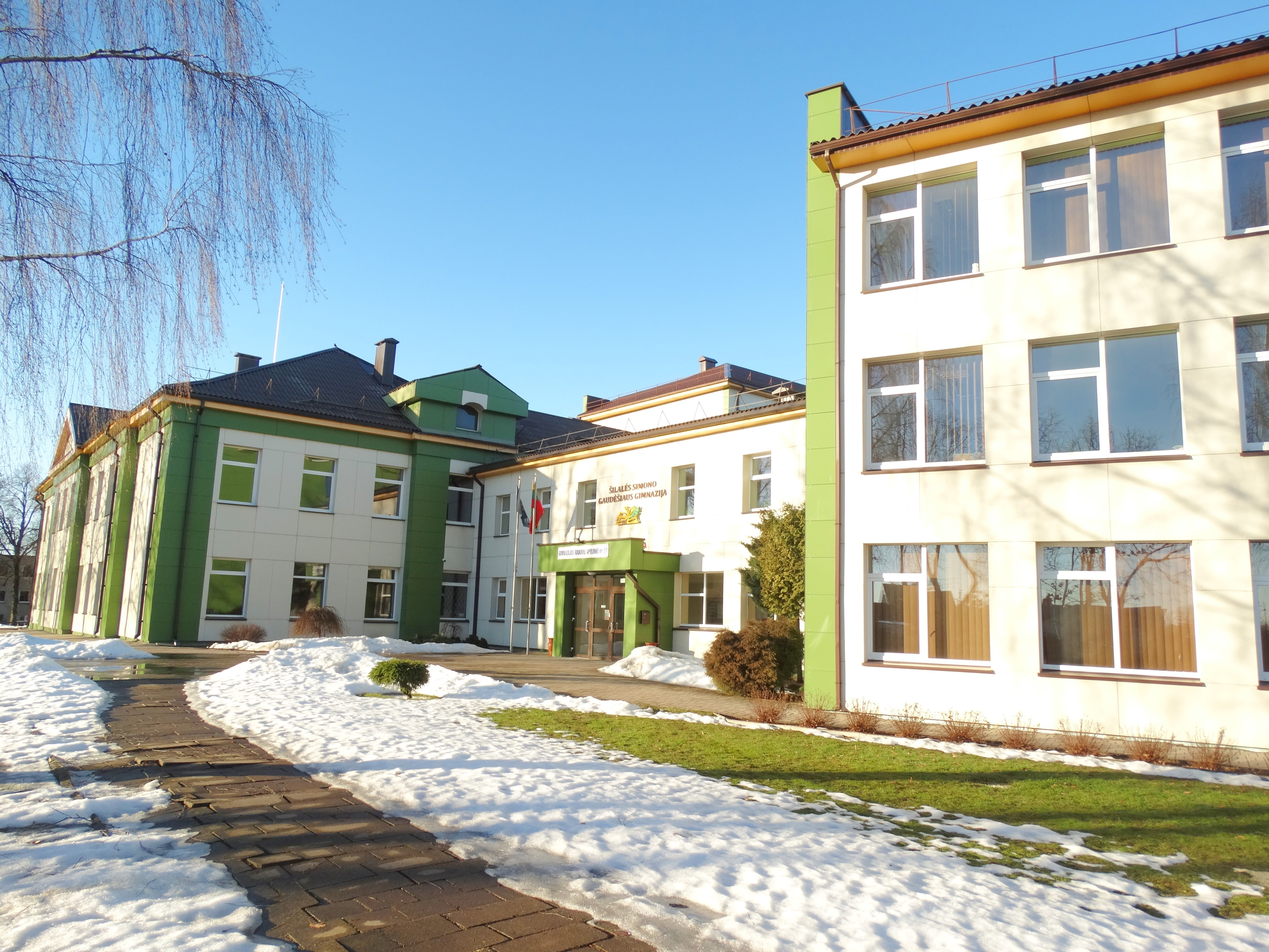 Simonas Gaudėšius' gymnasium, Šilalė, Lithuania